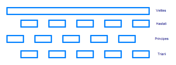 Diagram showing the battle formation of the Roman army in the 2nd and 3rd centuries BC